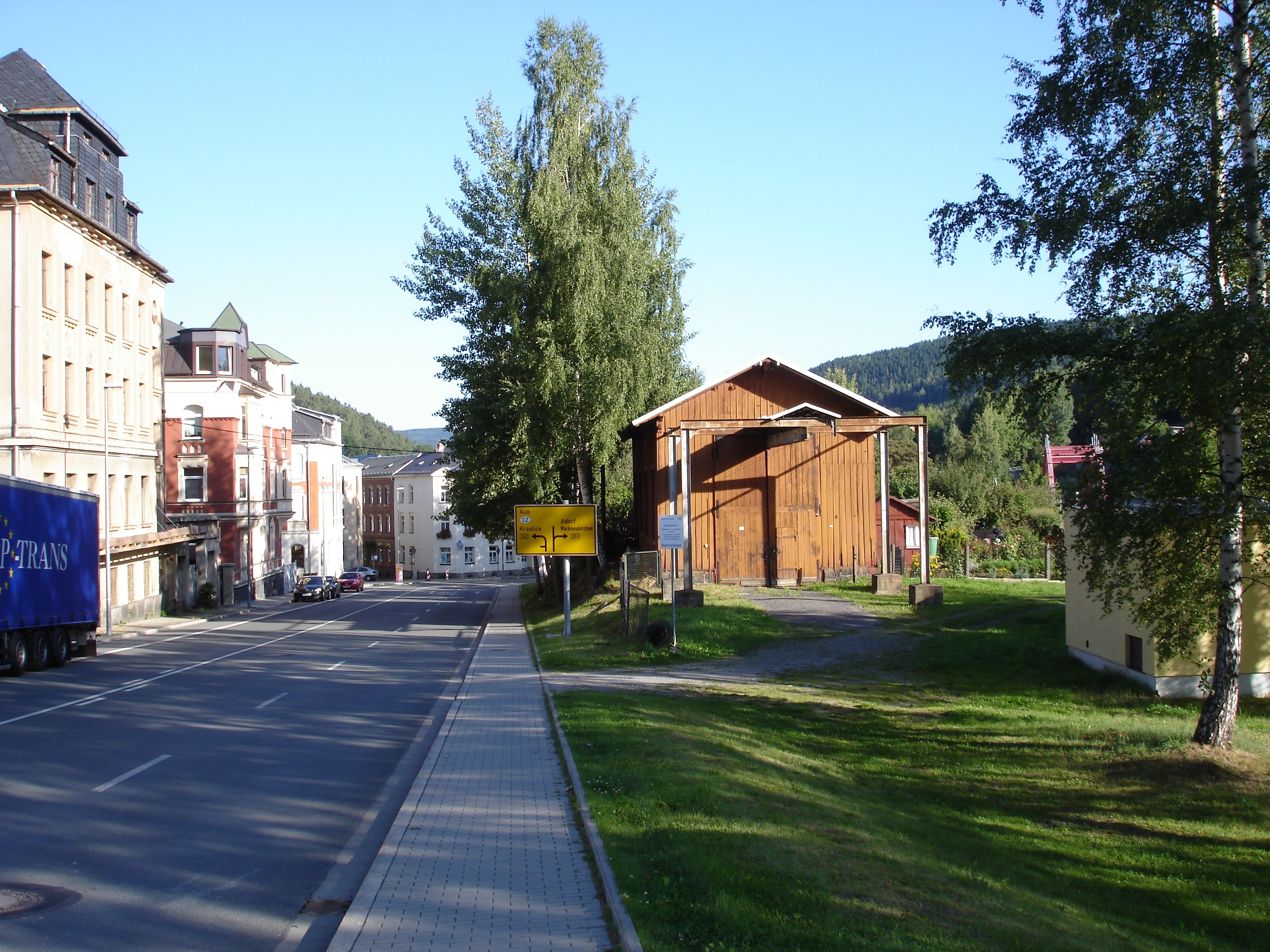 station Klingenthal, Saxony, Germany